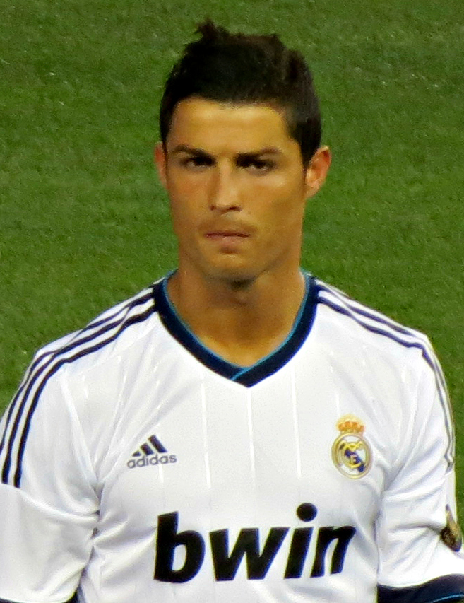 Ronaldo as Real Madrid player during a friendly match in August 2012